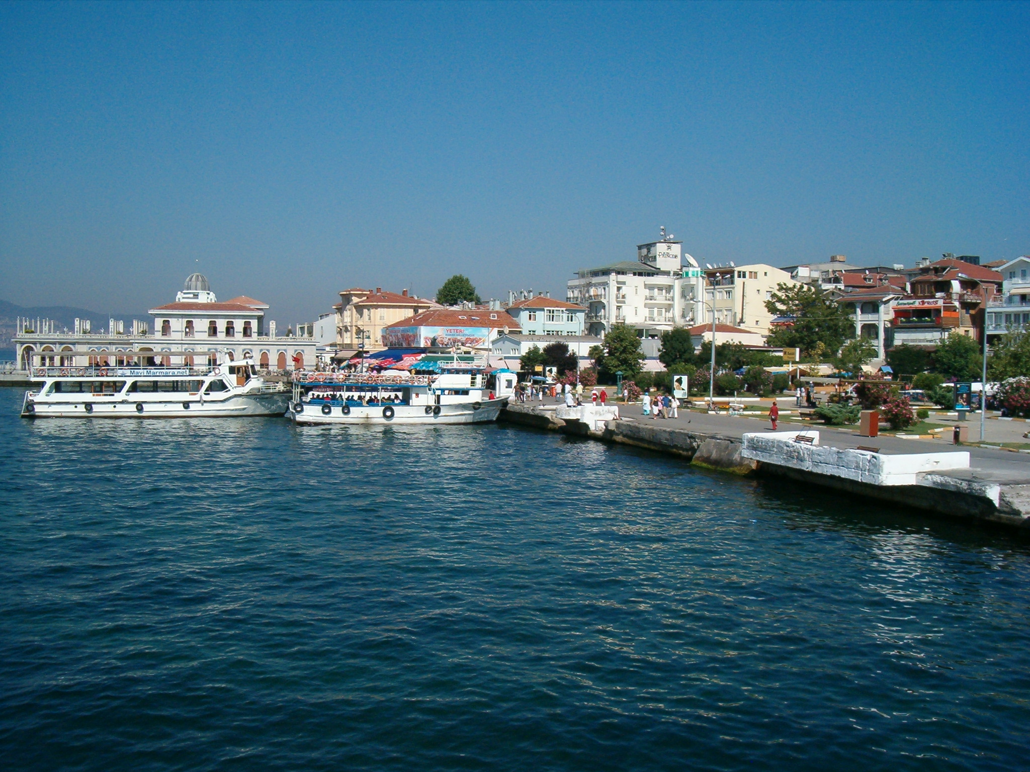 Büyükada